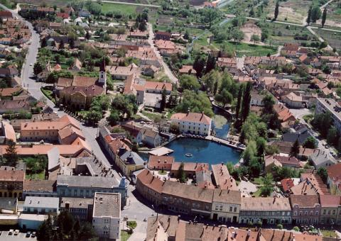 Tapolca, Hungary, aerialphotography